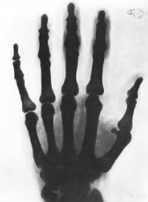 X-ray of Tesla's hand--one of the earliest x-ray photographs.